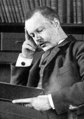 Houston Stewart Chamberlain in 1895